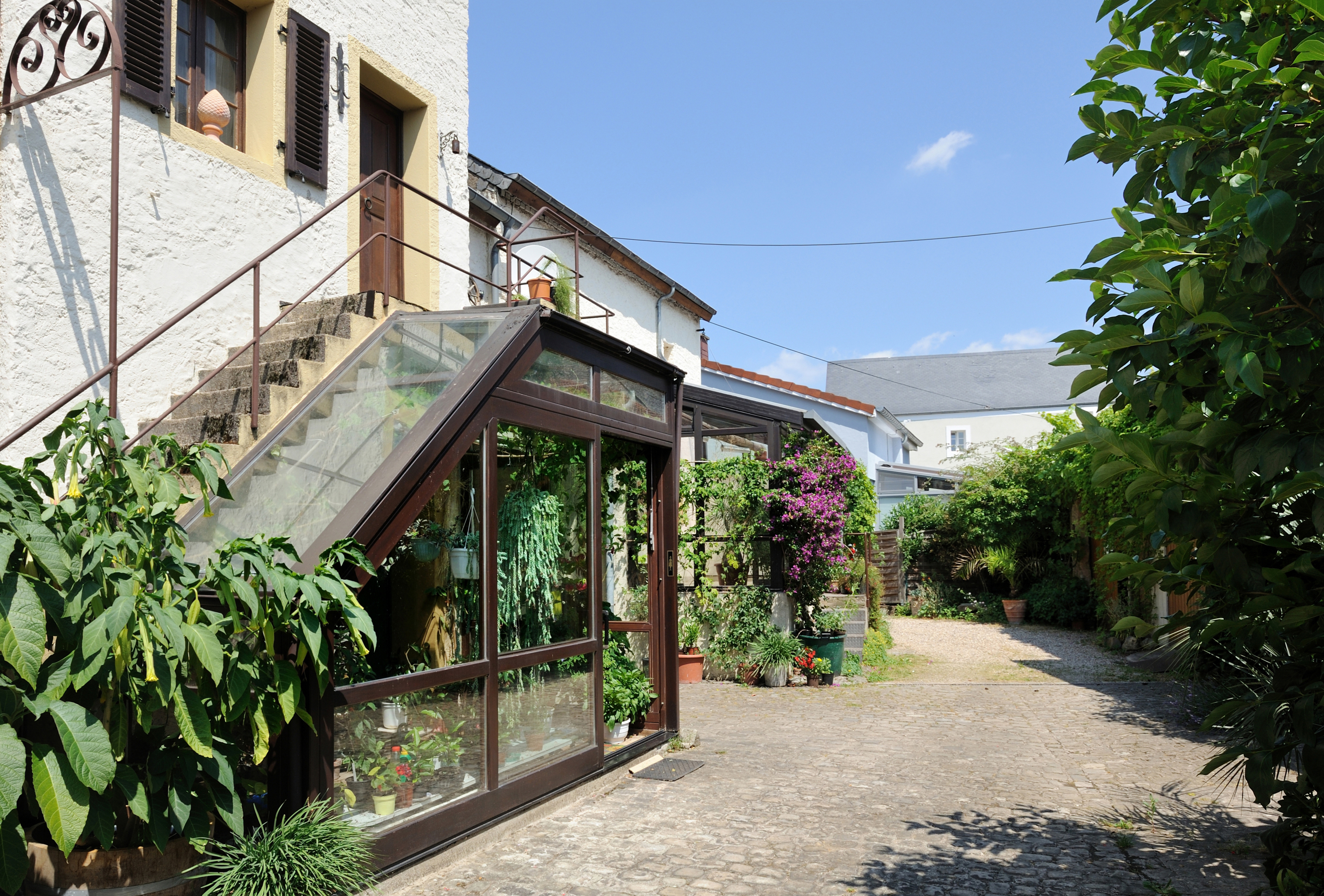 Luxembourg, Schwebsange: Jardin méditerranéen (Mediterranean Garden) of the Foundation Hëllef fir d'Natur in July 2010. The entrance to the garden is to the right.